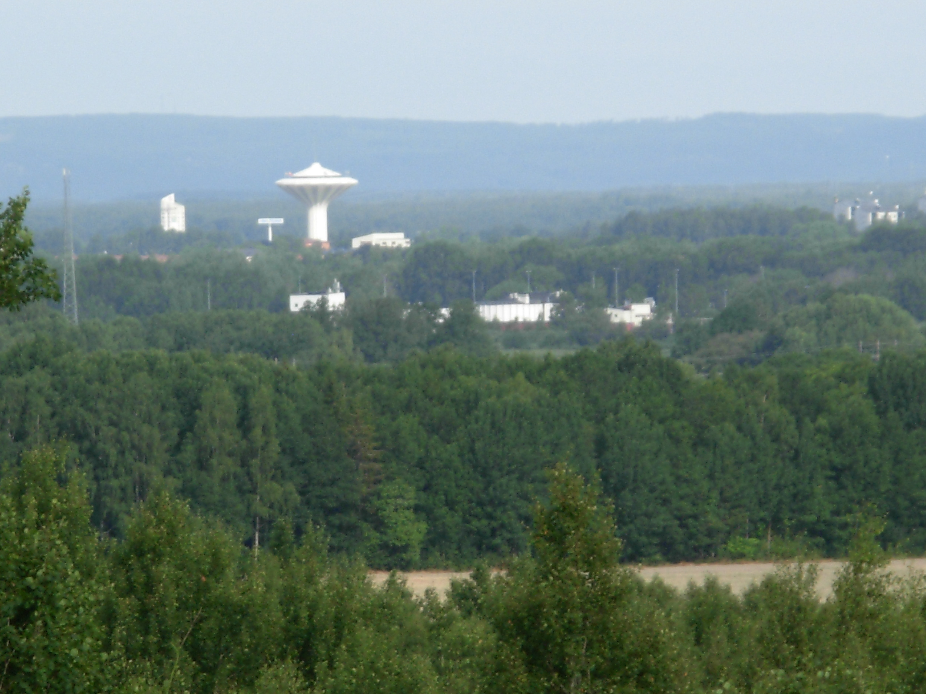 View from Blänkabacken, Örebro